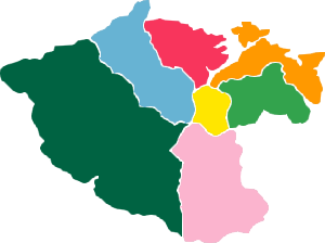 Districts of Keelung City： Jhongjheng District Jhongshan District Ren-ai District Sinyi District Anle District Nuannuan District Cidu District